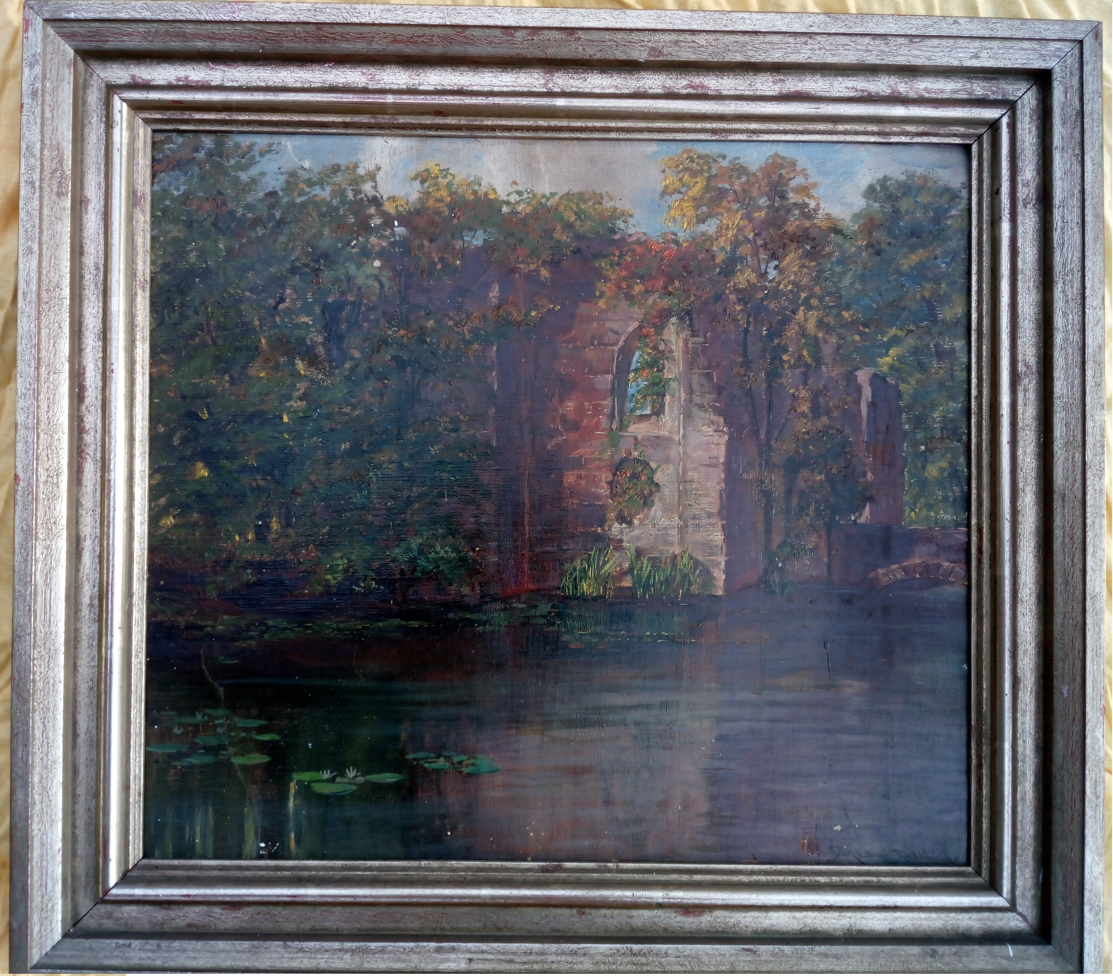 46cm x 40cm